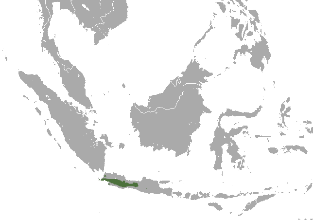 Javan Surili (Presbytis comata) range